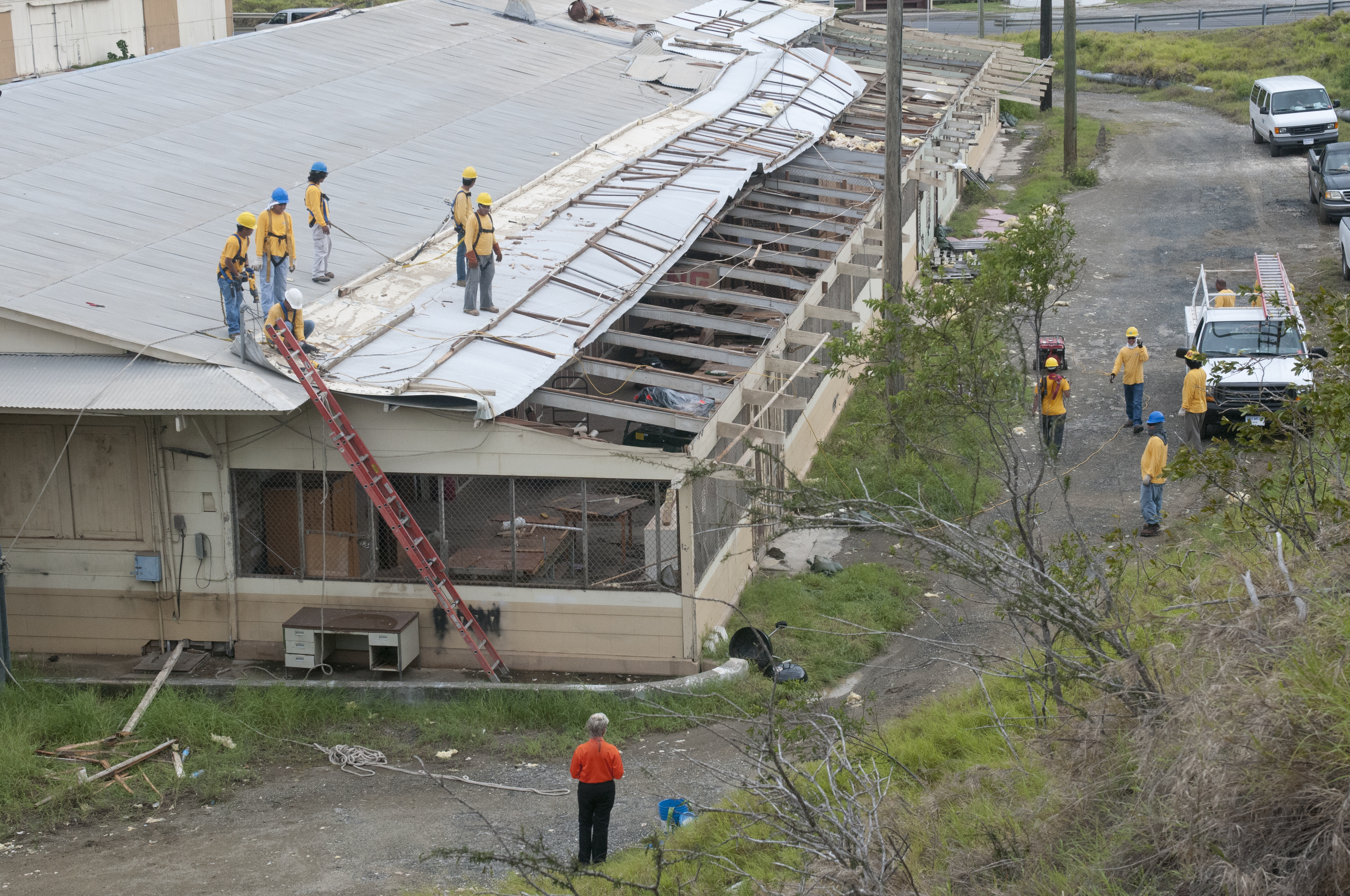 Damage being repaired on the roof of the Guantanamo Bay, Cuba, Arts and Crafts Center after Hurricane Sandy made landfall. Joint Task Force Guantanamo Public Affairs Photo by Sgt. Brett Perkins Date Taken:10.25.2012 Location:GUANTANAMO BAY, CU Read more